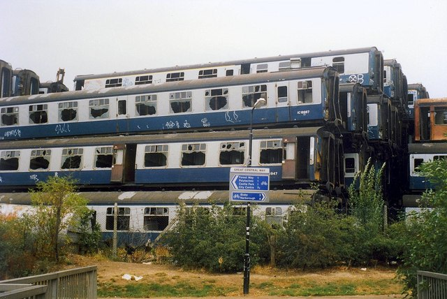 What a complete waste! More coaches stacked up waiting for cutting in Vic. Berry's scrapyard, Leicester in 1990. Note that the road sign states a connection with the Great Central Railway, which has also passed into oblivion.